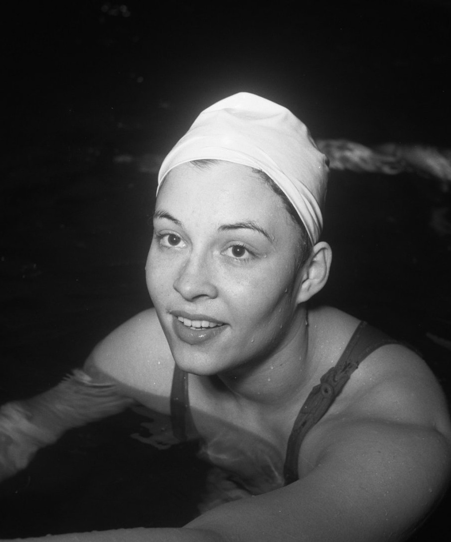 Ria van der Horst